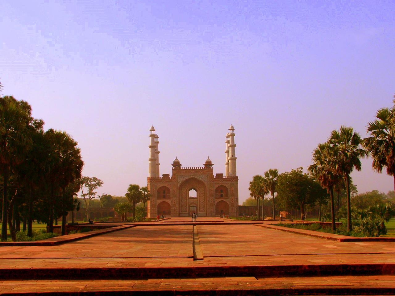 Main entrance of Akbar's Tomb complex from inside, also showing the water channel of the Charbagh garden, typical to Mughal garden tombs.